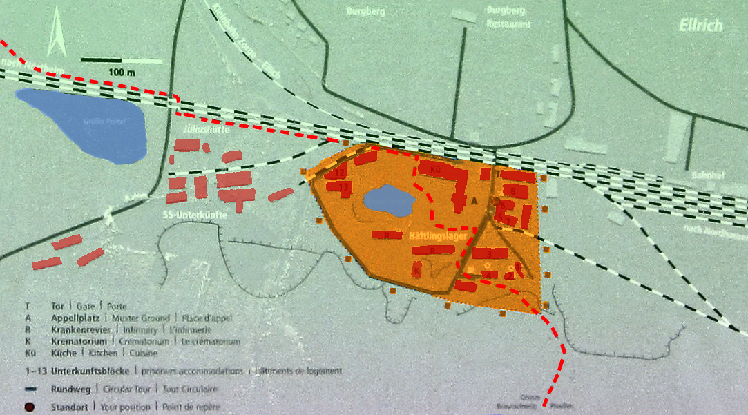 Map of Ellrich-Juliushütte ("Mittelbau II") concentration camp Ellrich, Thuringia, Germany.